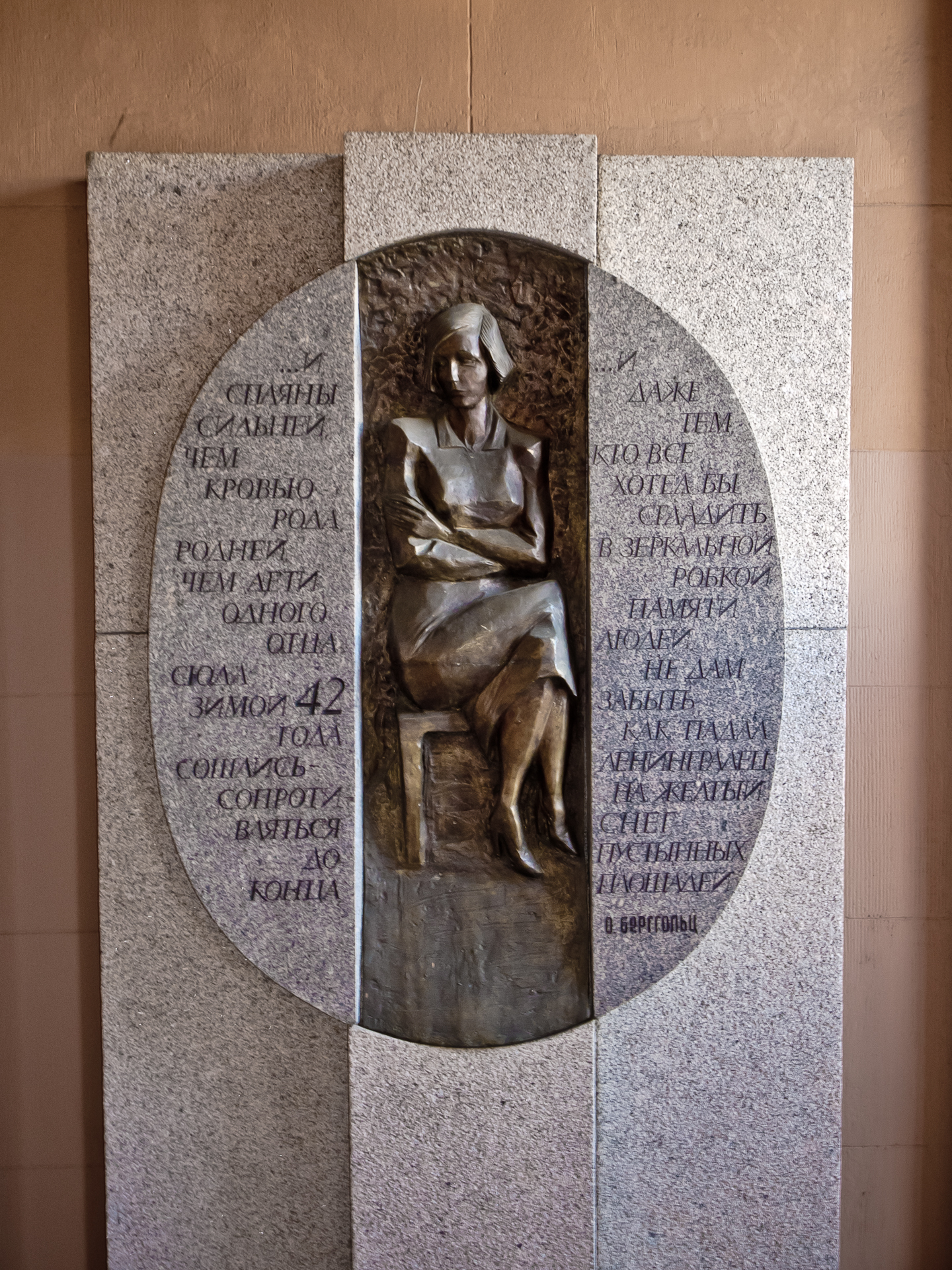 "Leningradskiy Dom Radio", Olga Berggolz's memorial